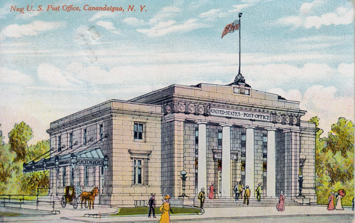 Rendering of Canandaigua, NY, post office before completion in 1910.